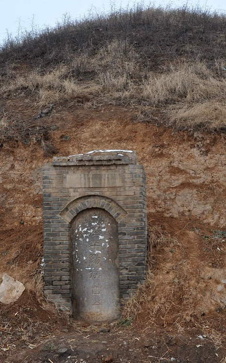 The Tomb of the Second Cancellor of the Han Dynasty